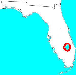 Map of florida showing historical location of the Mayaimi people.